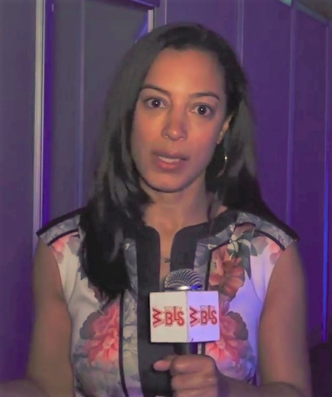 American attorney and political analyst Angela Rye speaks with New York City radio station WBLS at the 108th NAACP Convention in Baltimore, MD.